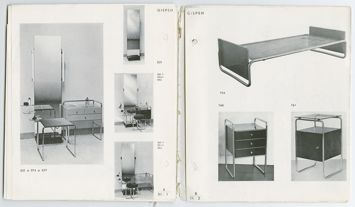 Gispen furniture catalogue. The New Institute Collection, GISP Archive. Some items of furniture and light fittings were designed specially for the Sonneveld House, but most were mass-produced pieces bought off the shelf. The family chose tables, chairs, desks and beds from the Gispen catalogues issued in 1933 and 1934. The Sonneveld House was built in the early 1930’s, it’s a perfect example of the ‘Nieuwe Bouwen’ functionalist style, designed by architecture firm Brinkman and Van der Vlugt. Much of its furniture was designed by W.H. Gispen. It’s now a House Museum preserved by The New Institute and open for the public. The Sonneveld family's personal archive and the architects business archive contain great quantities of useful information about everyday life in the house and how it was designed and furnished.